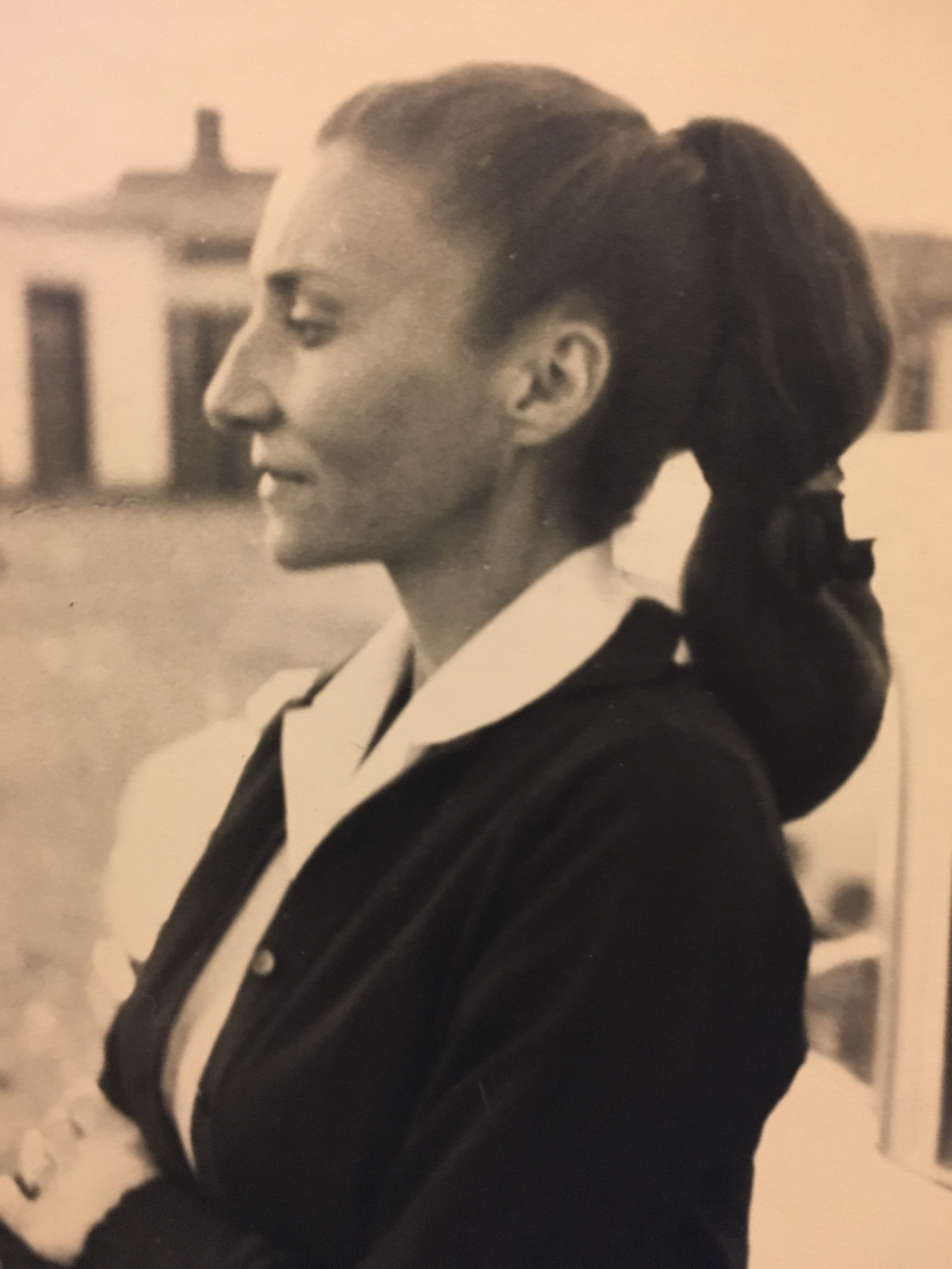 Beatriz Danitz, Chilean Painter.